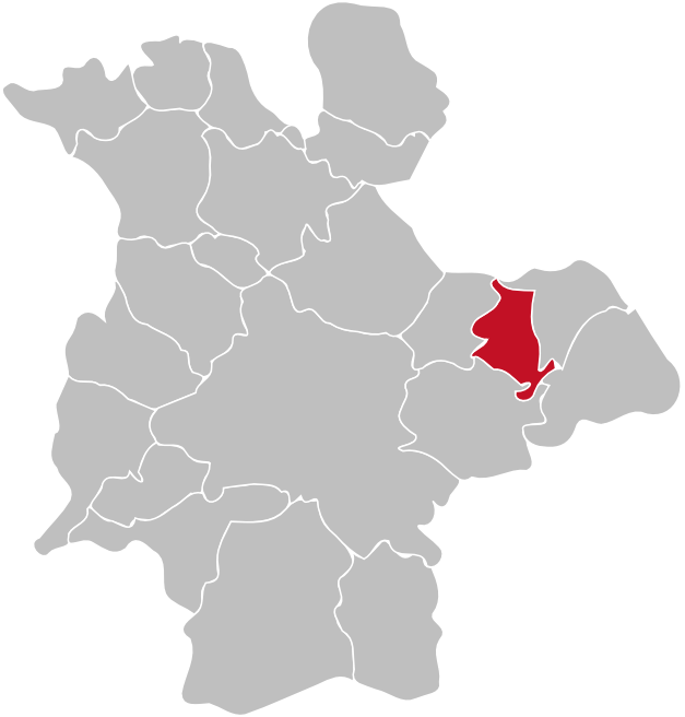 Location of the district Volnsberg within Siegen, Germany. Red/Grey colors match the color scheme of Germany maps and information boxes in German Wikipedia. District is highlighted in red.